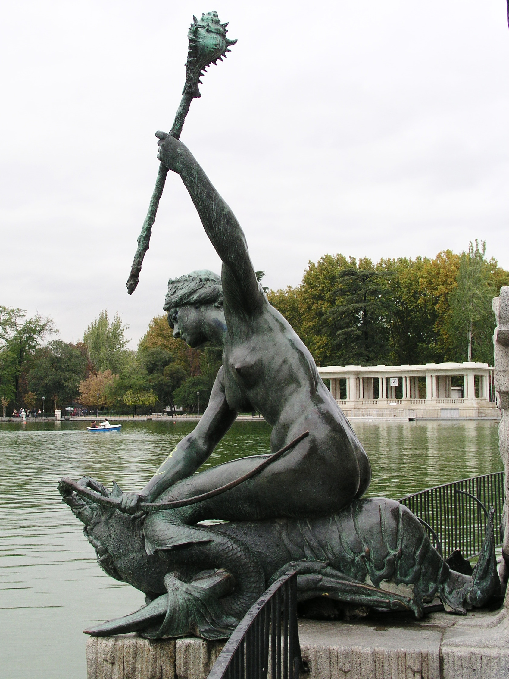 Bronce sculpture of a mermaid over a sea creature, made by Antonio Parera Saurina (1868–1946). Detail of the monument to Alfonso XII in the Jardines del Buen Retiro in Madrid (Spain), built from 1902 to 1922.